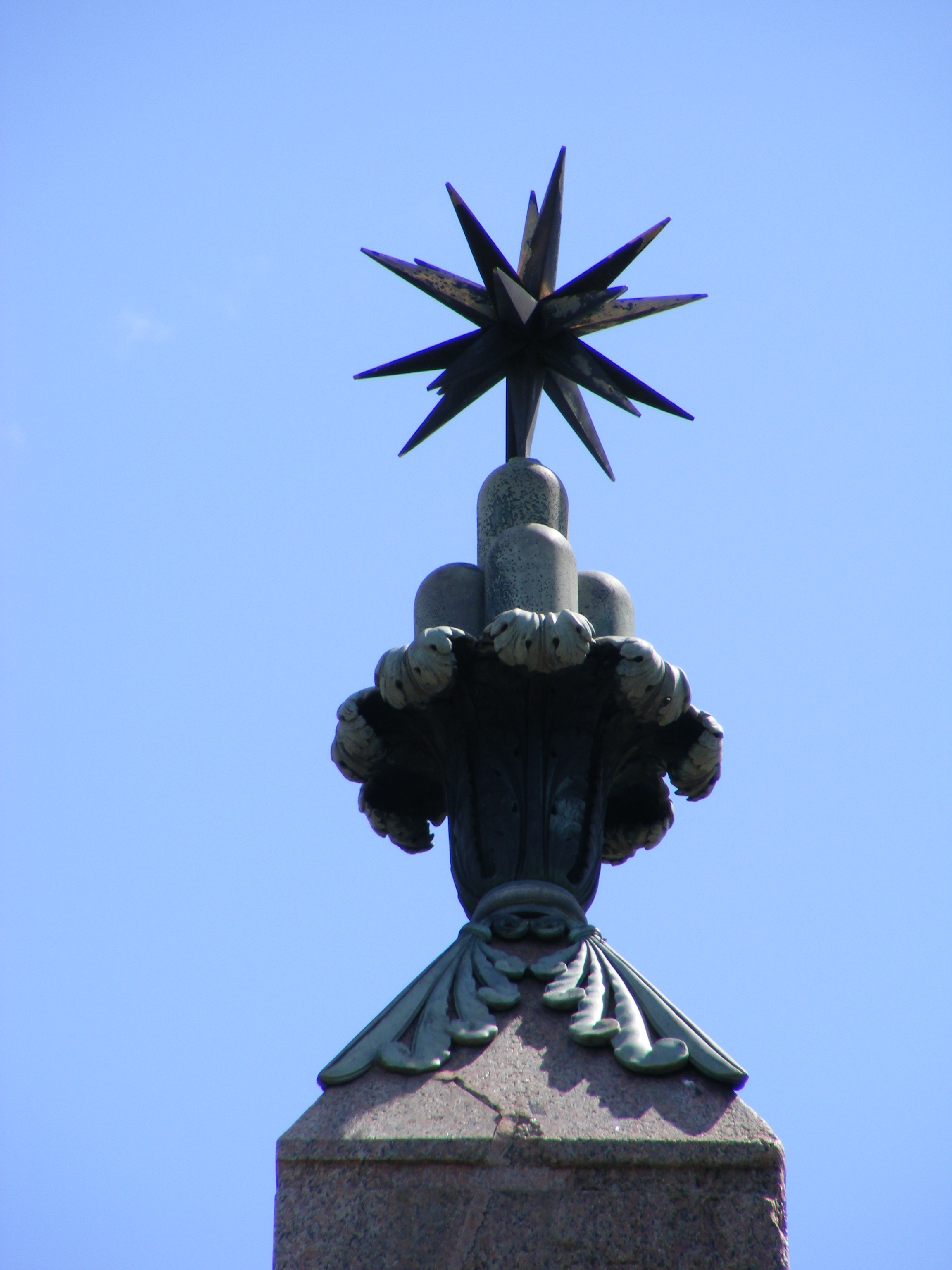 Top of the Antinous obelisk